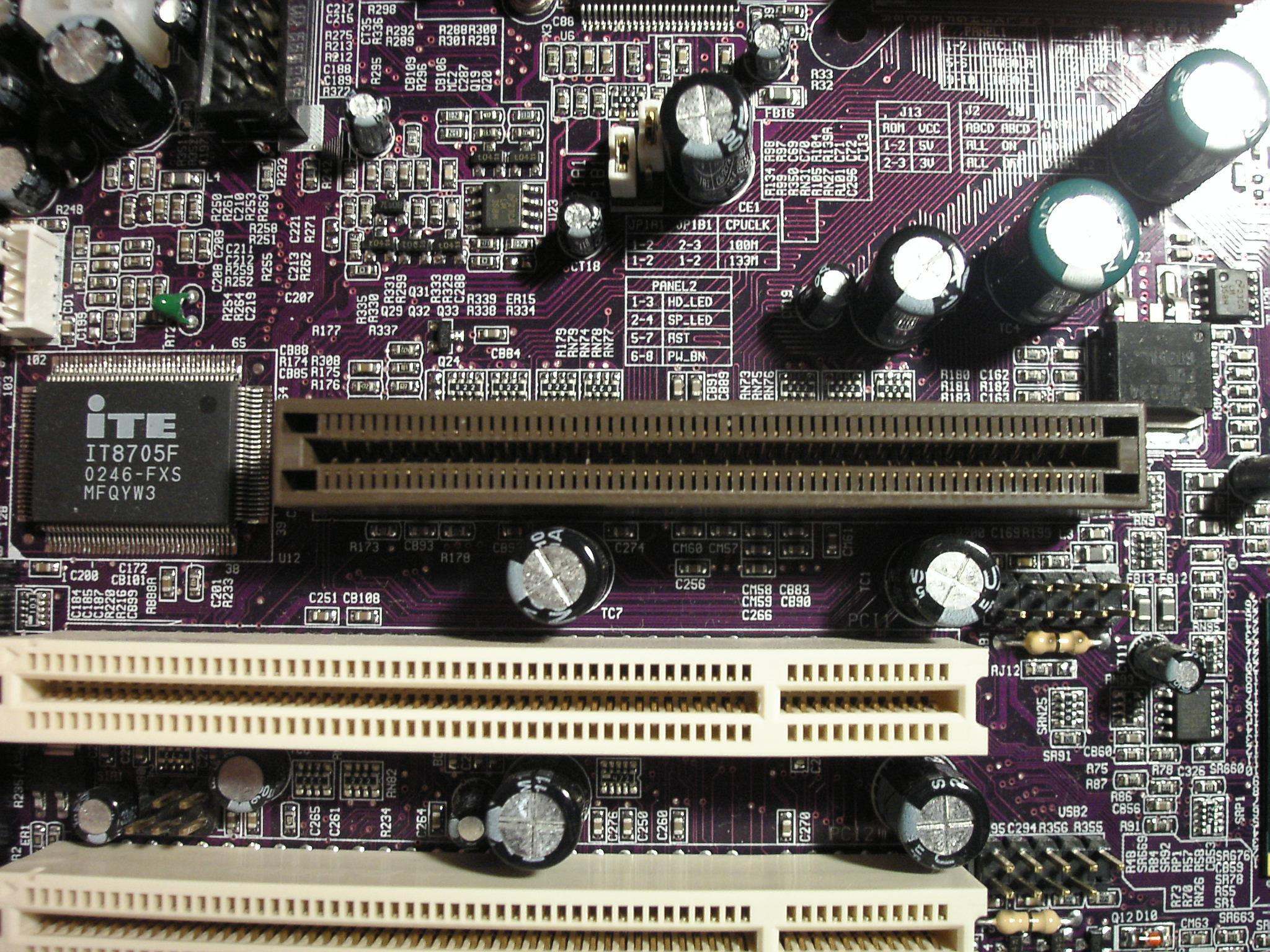 Slot Accelerated Graphics Port(AGP), at the center of the image, color brown